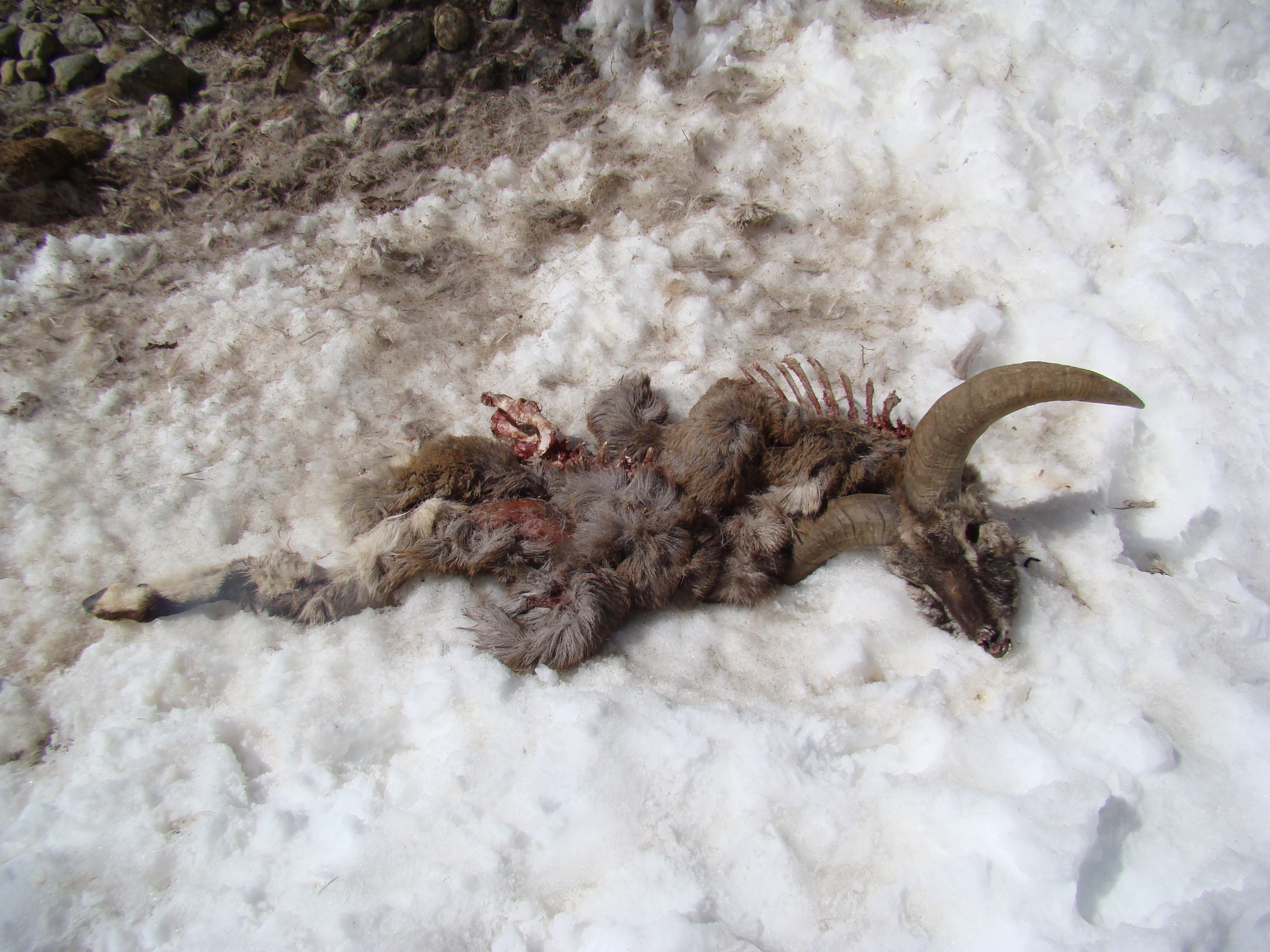 A blue sheep (Pseudois nayaur) killed by snow leopard.